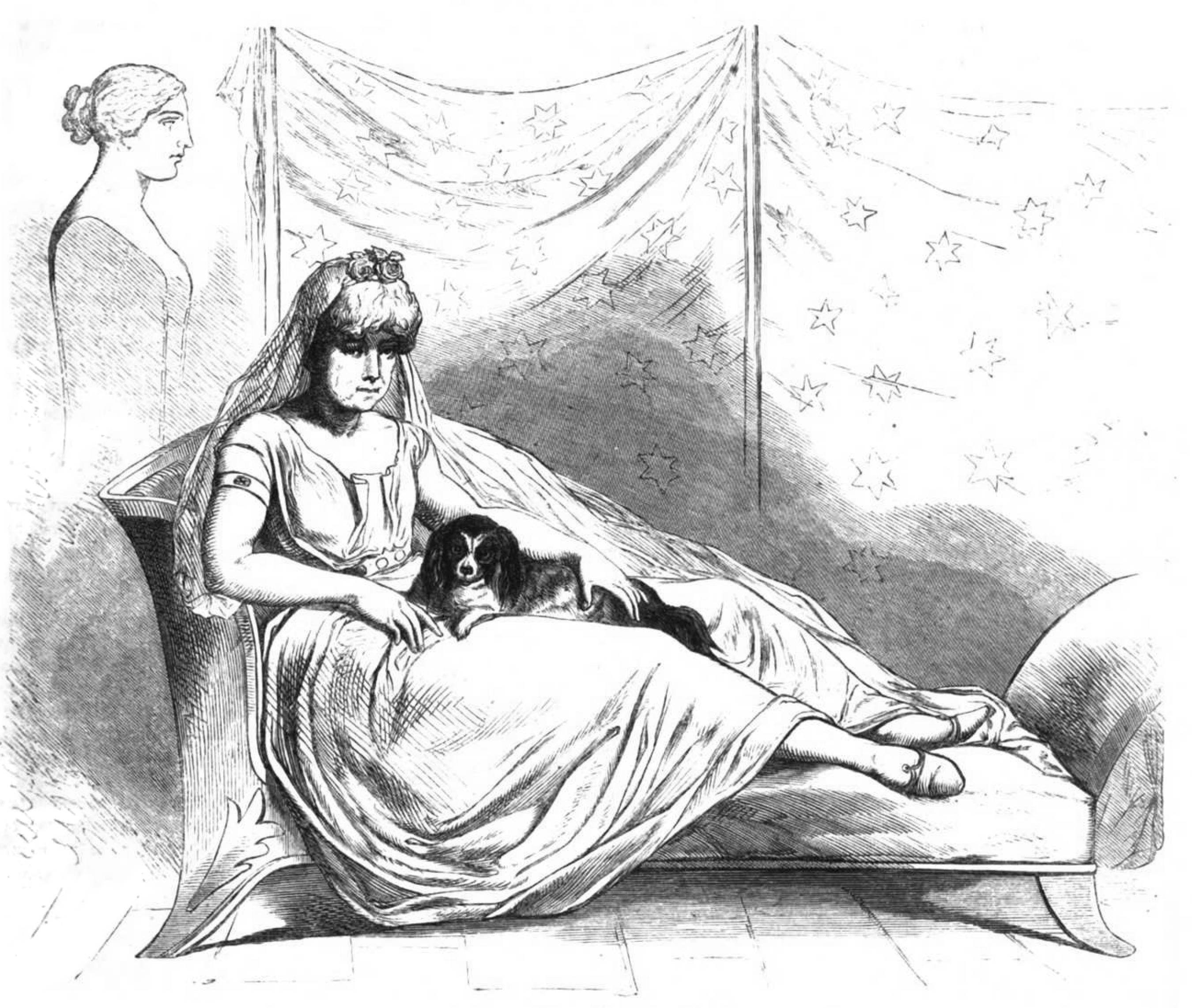 caption: "Herzog August von Gotha als Griechin."